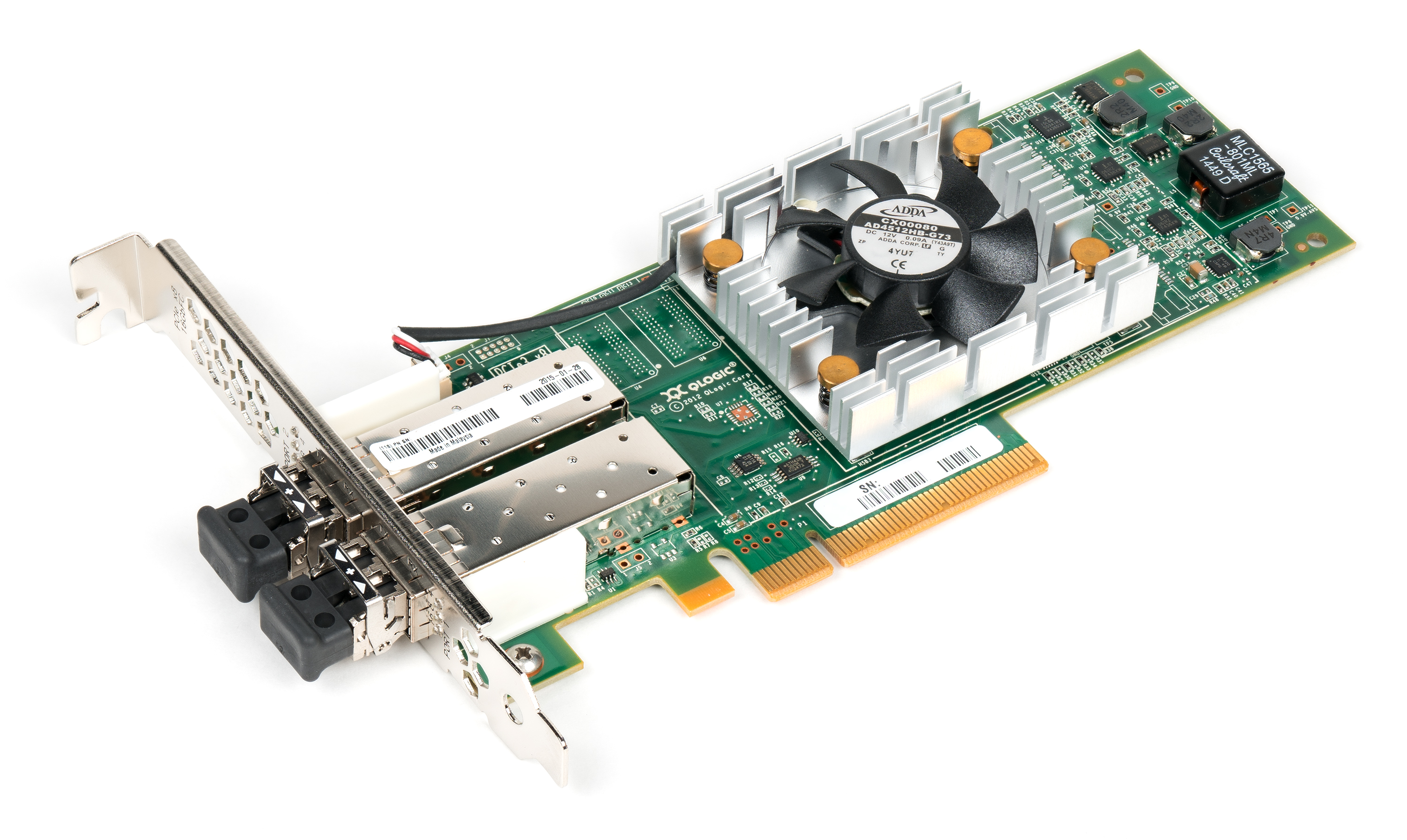 QLogic QLE2662 16Gb Fibre Channel host bus adapter card. Two 16Gb FC ports with SFP transceivers, PCIe ×8 interface.